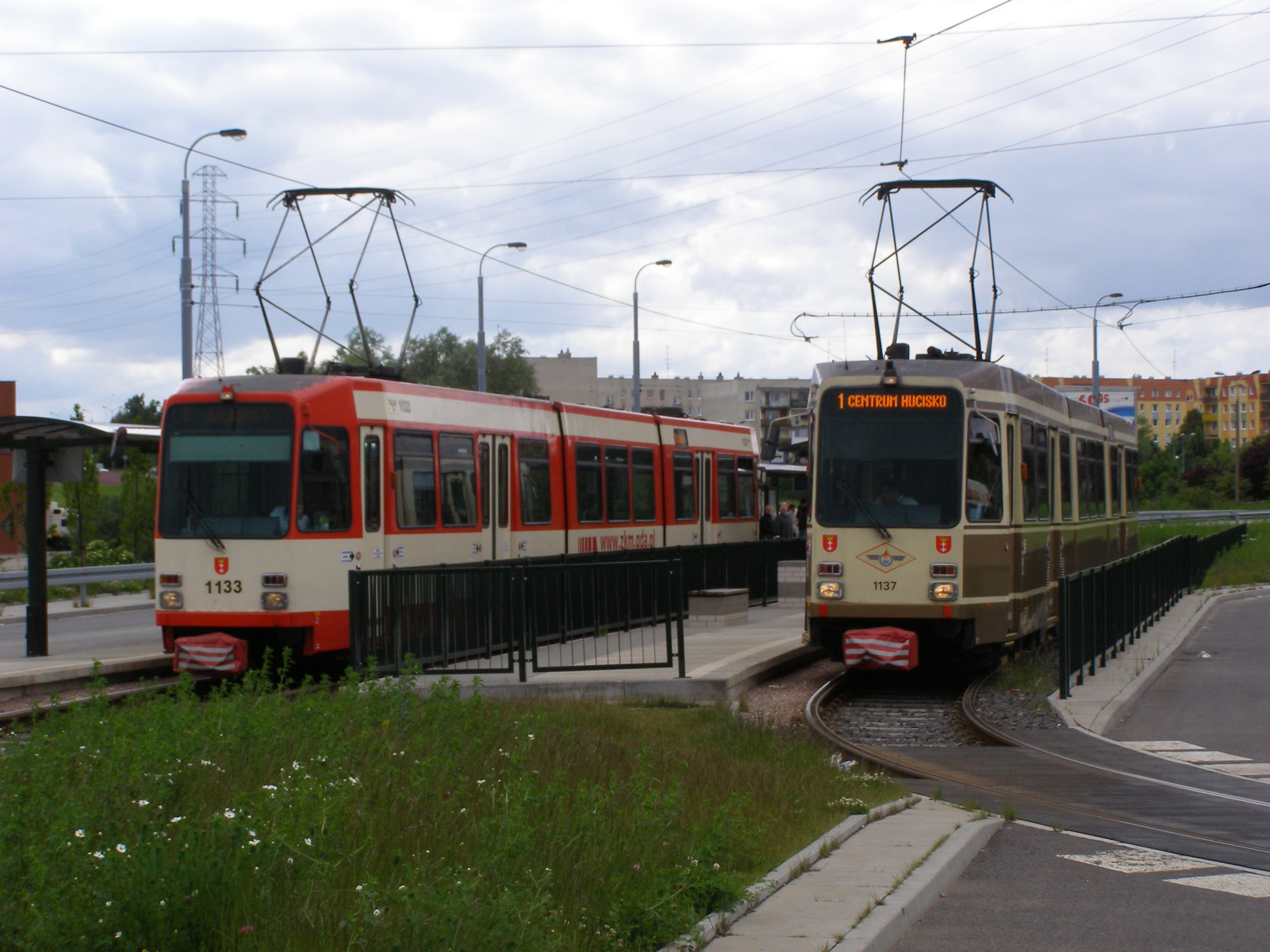 Gdańsk - Düwag N8C trams #1133 & #1137 on Chełm terminus